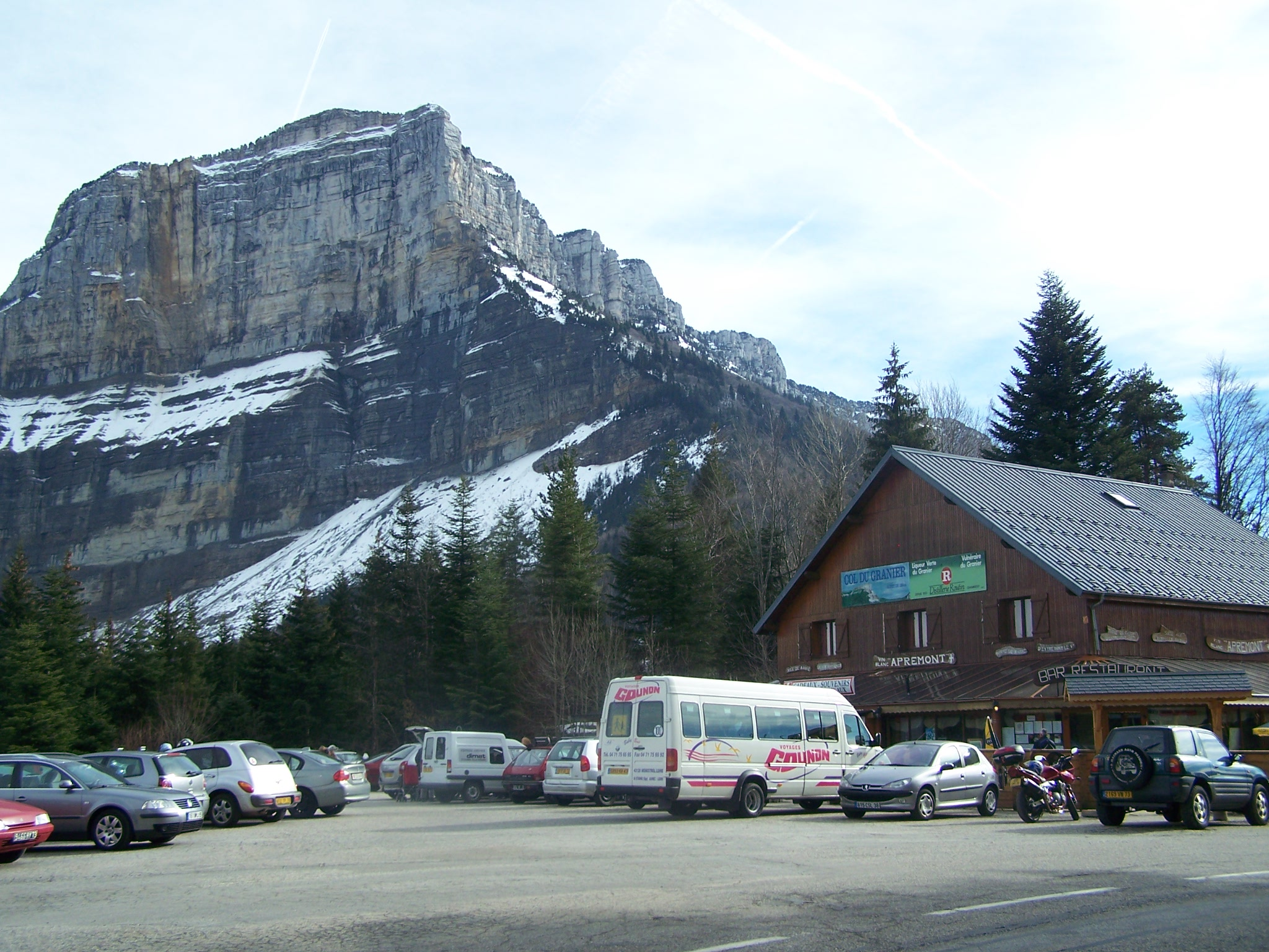 The Granier pass, and its restaurant. Mount Granier in background. (Savoie, France).